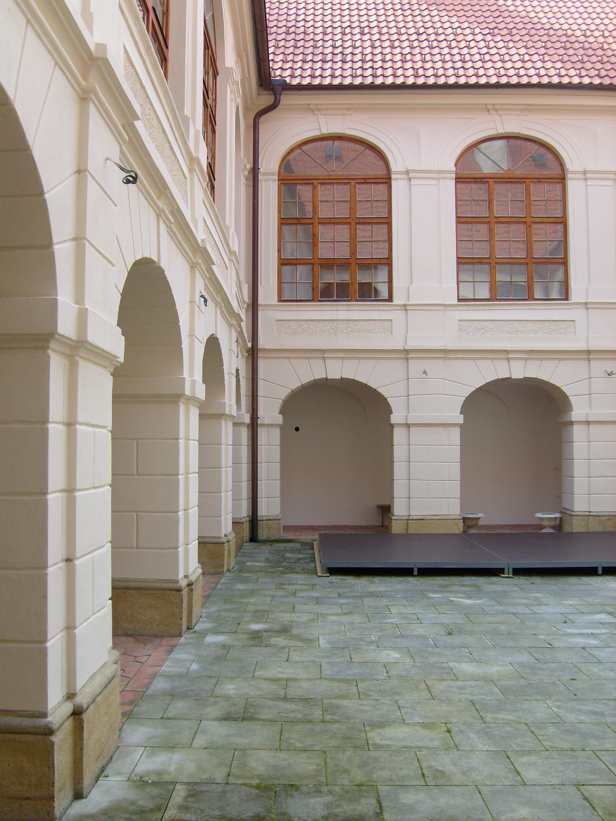 Castle in Konice, Olomouc Region, Czech Republic